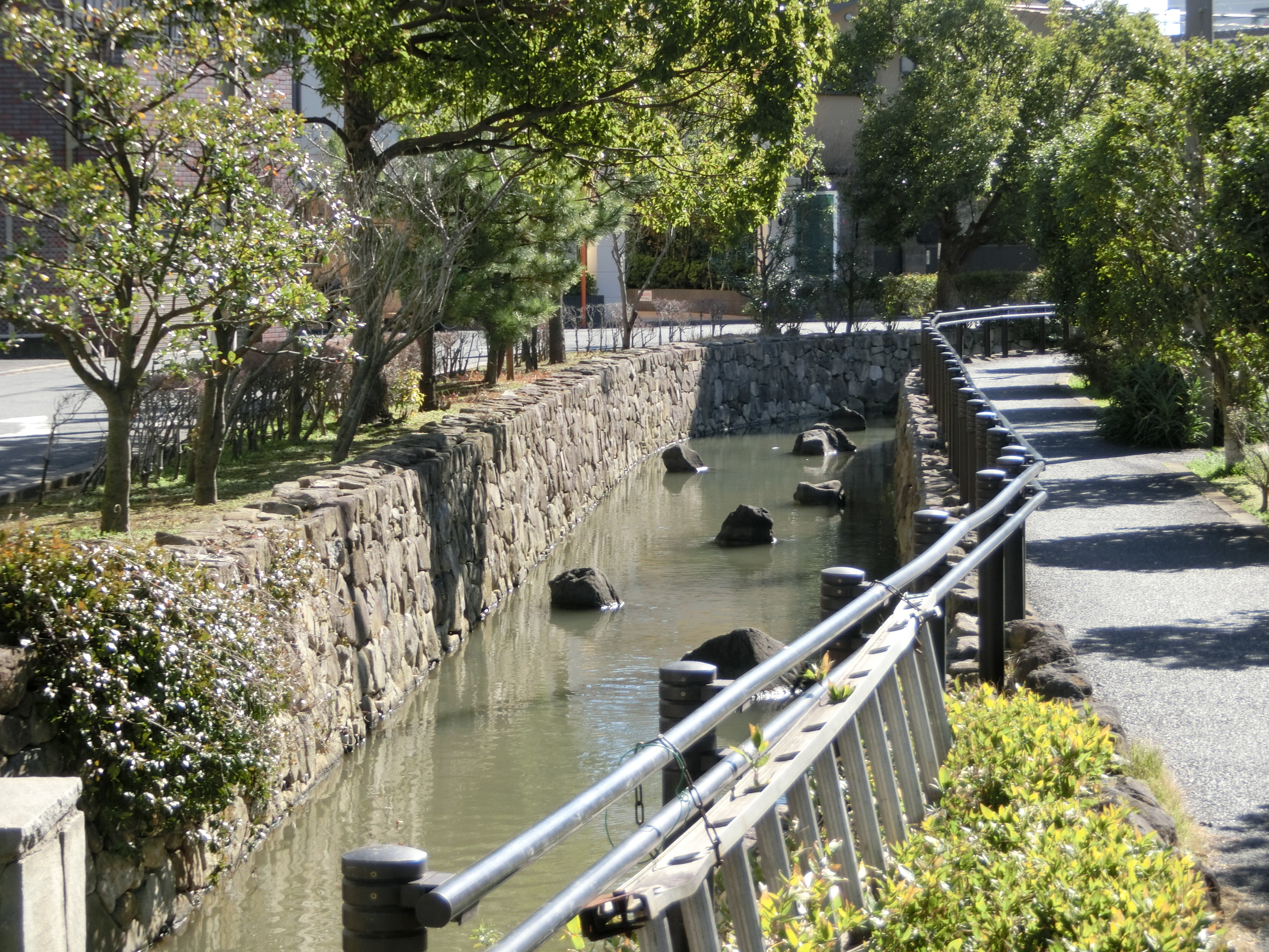 Sakon River